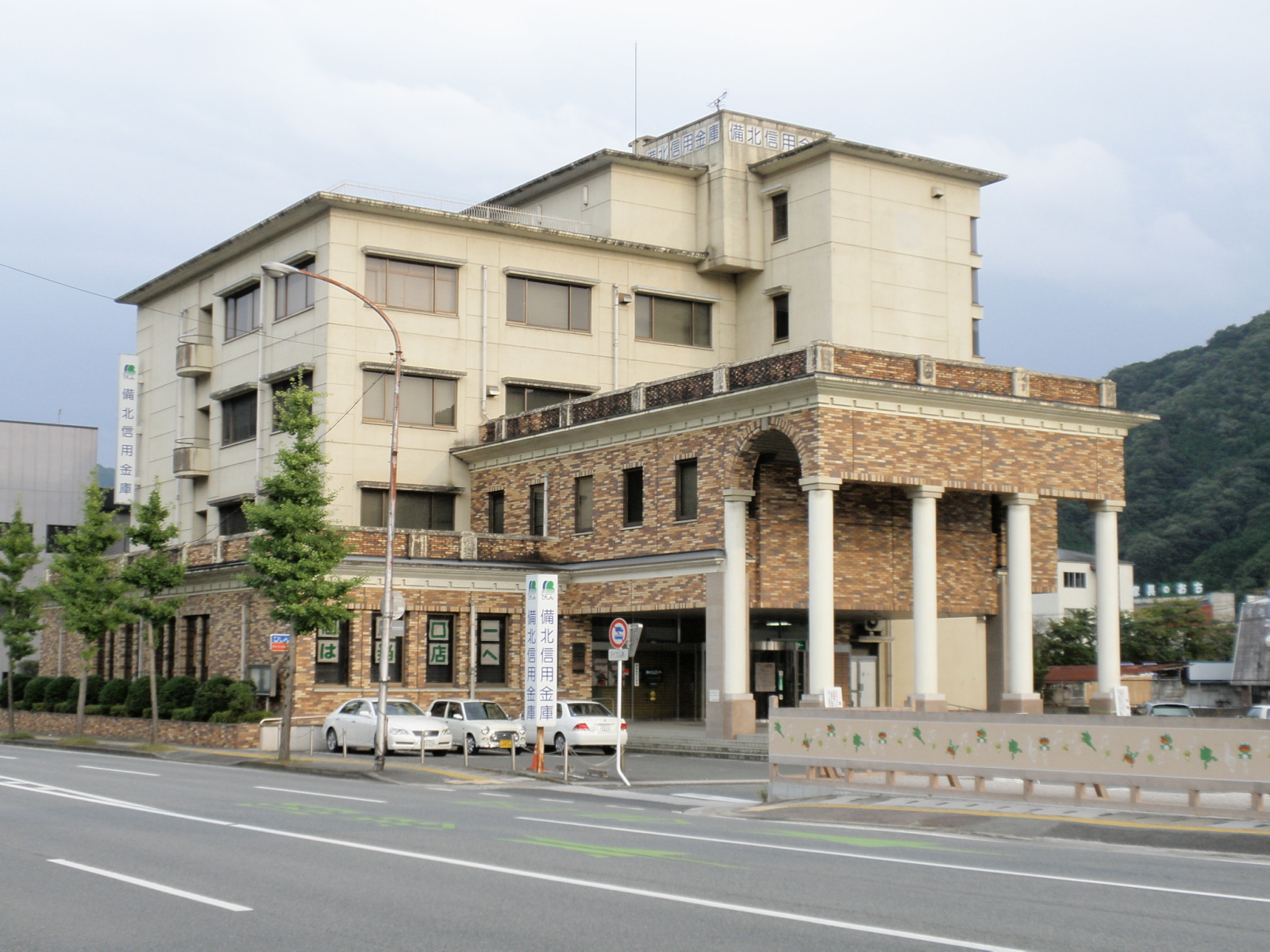 Bihoku Shinkin Bank Niimi Sales Department